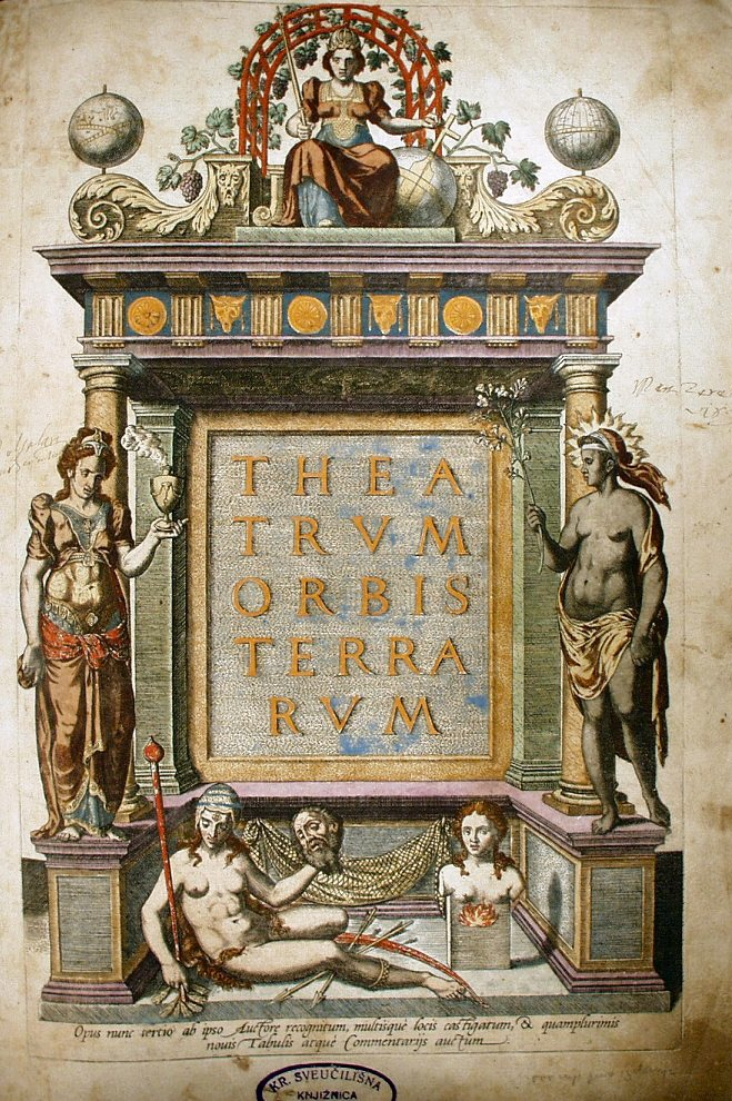 Theatrum Orbis Terrarum or Theatrum orbis terrarum refers to an atlas by Dutch cartographers Abraham Ortelius which was later updated by the Blaeu family.